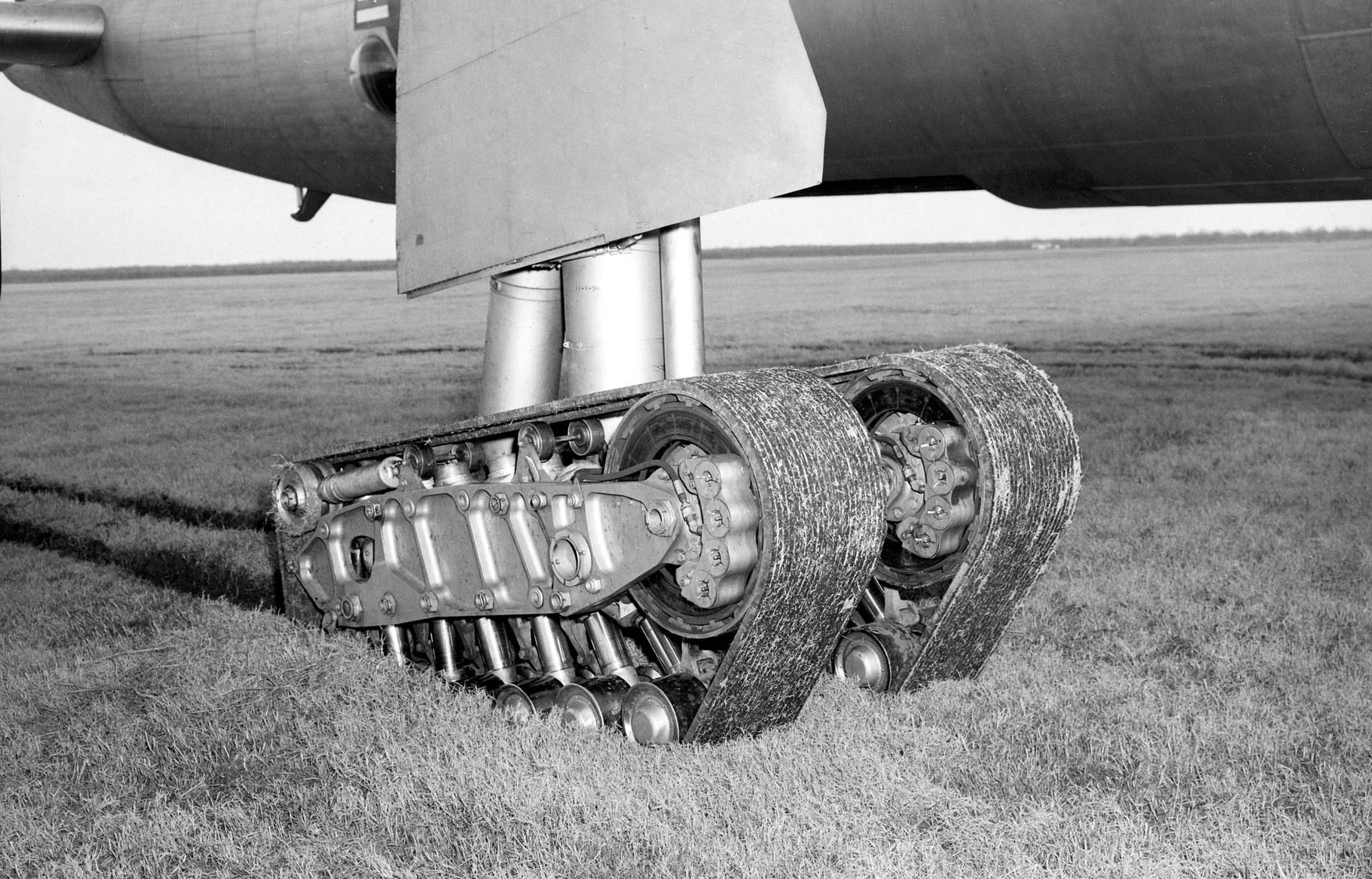 Convair B-36 with experimental tracked landing gear, to reduce ground pressure for soft-field use.